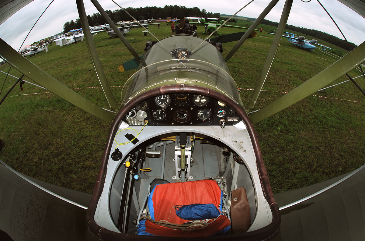 Cockpit.Po-2 RA-1945G